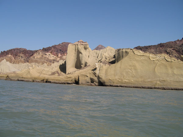 Hormoz Island, Persian Gulf